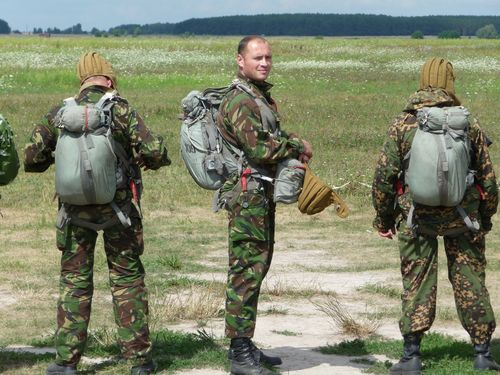 Maksym Shapoval, Colonel of Ukrainian Chief Directorate of Intelligence